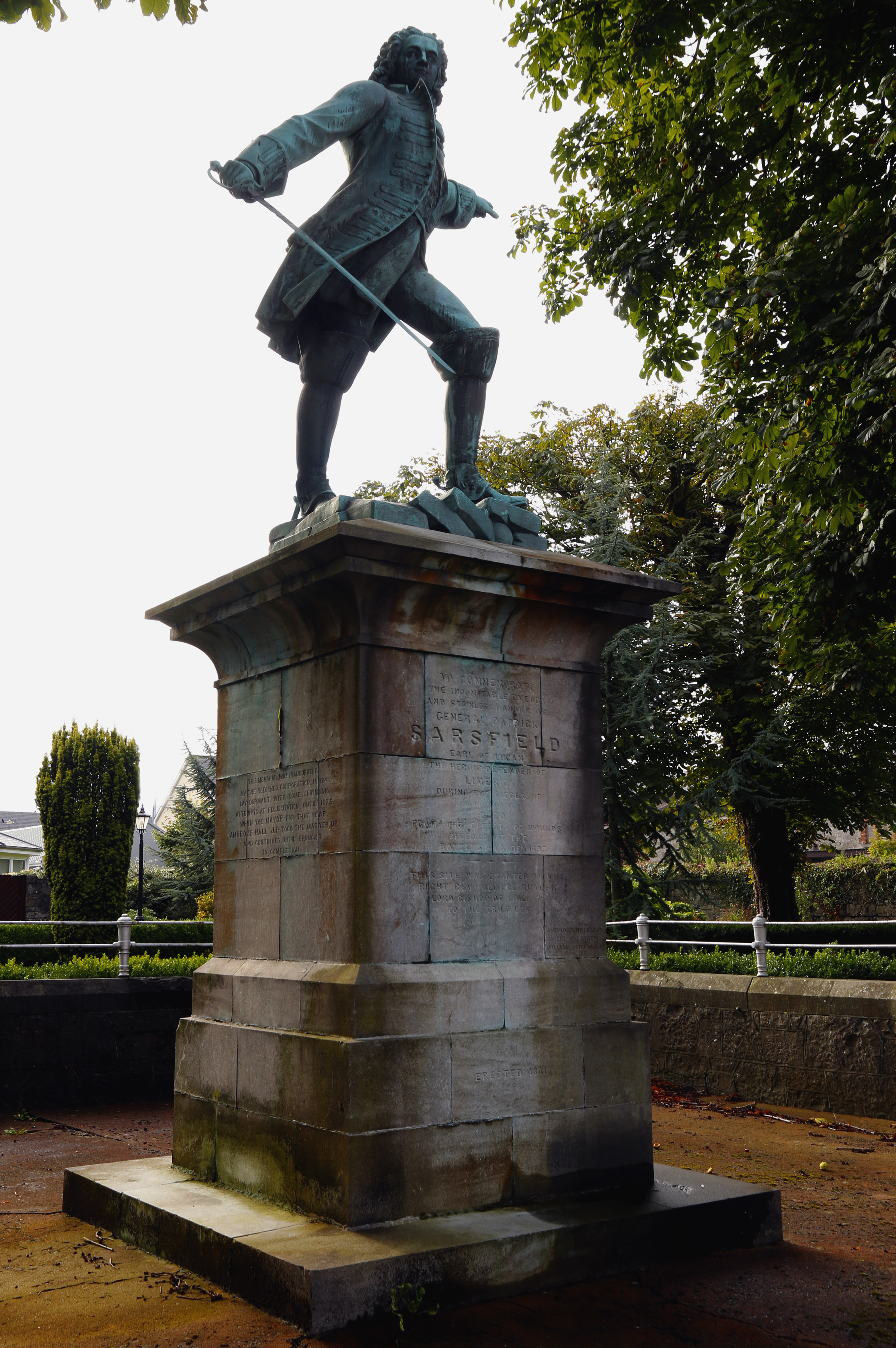 Sarsfield Memorial